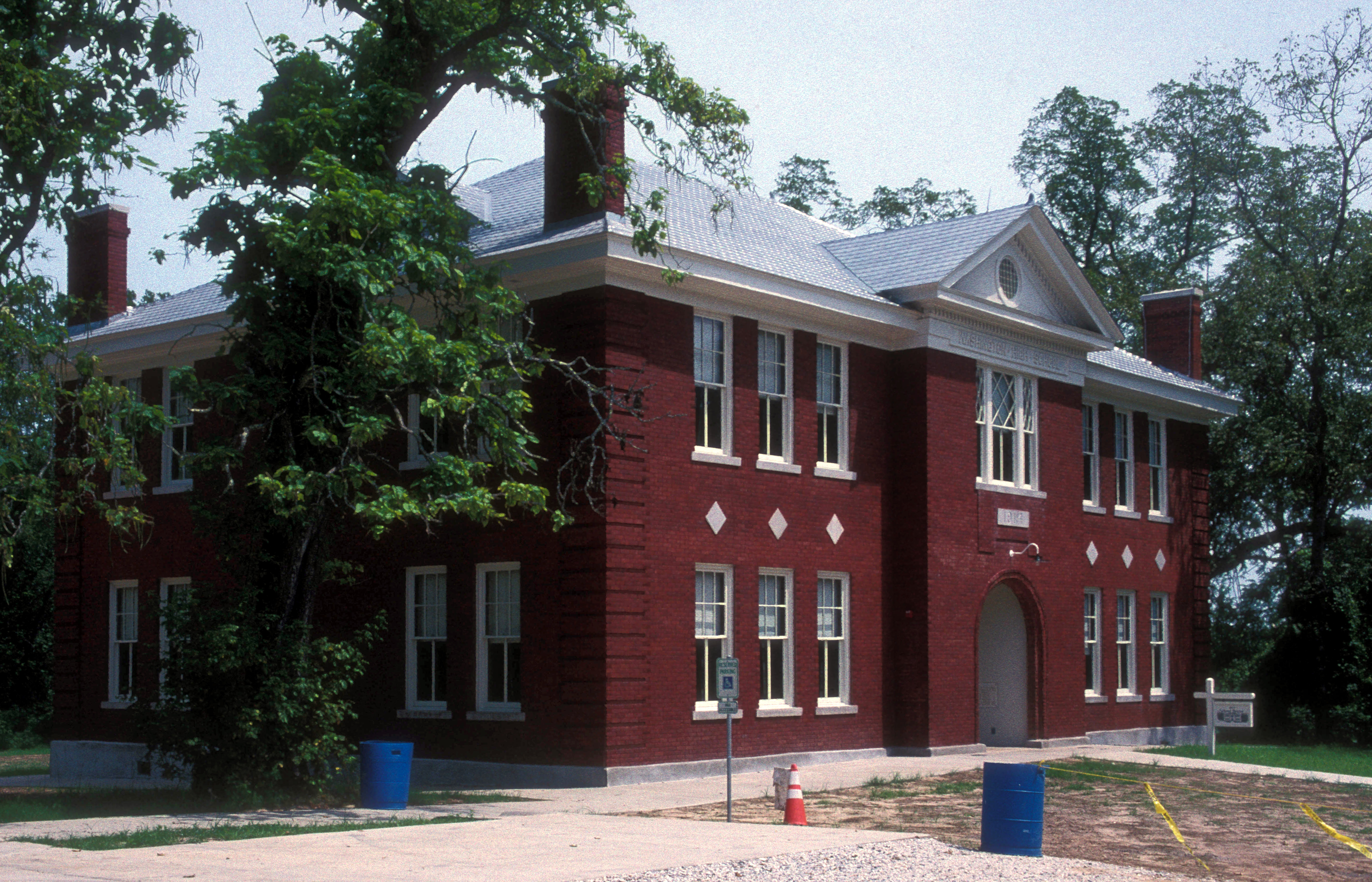 1914 SCHOOLHOUSE FROM NEARBY NASHVILLE